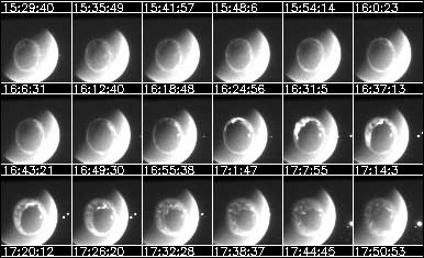 A series of ultraviolet images of the Earth's atmosphere over time, showing the aurora brighten and spread due to a substorm.